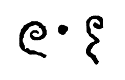 The number 605 in Khmer numerals, copied from the Sambor inscriptions in 683 AD. The earliest material use of zero.